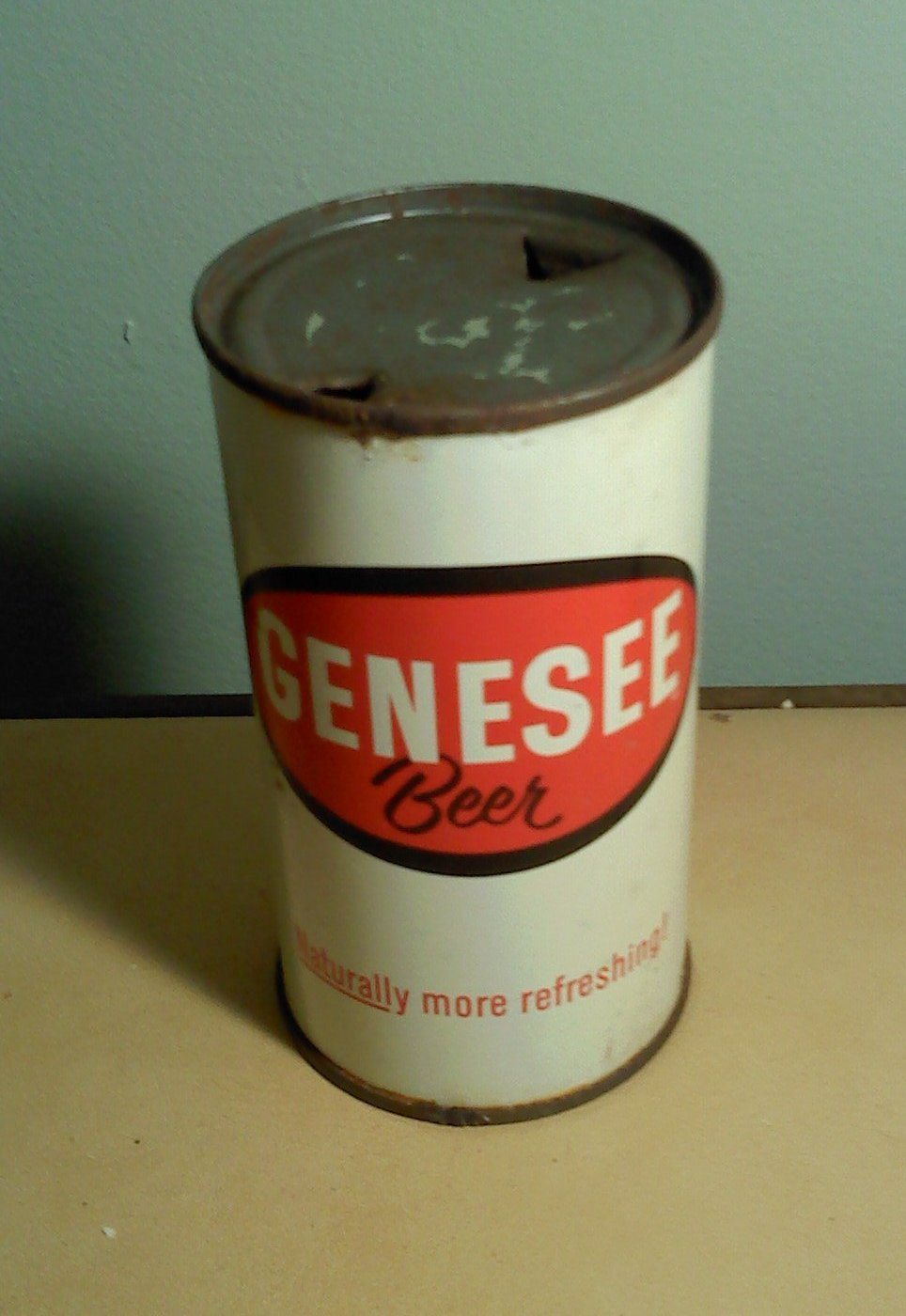 An old Genesee Beer can found in the basement of my apartment. It has a couple of holes from a churchkey.